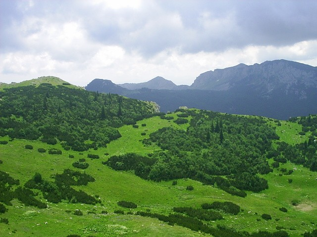 Treskavica mountains in Bosnia and Herzegovina